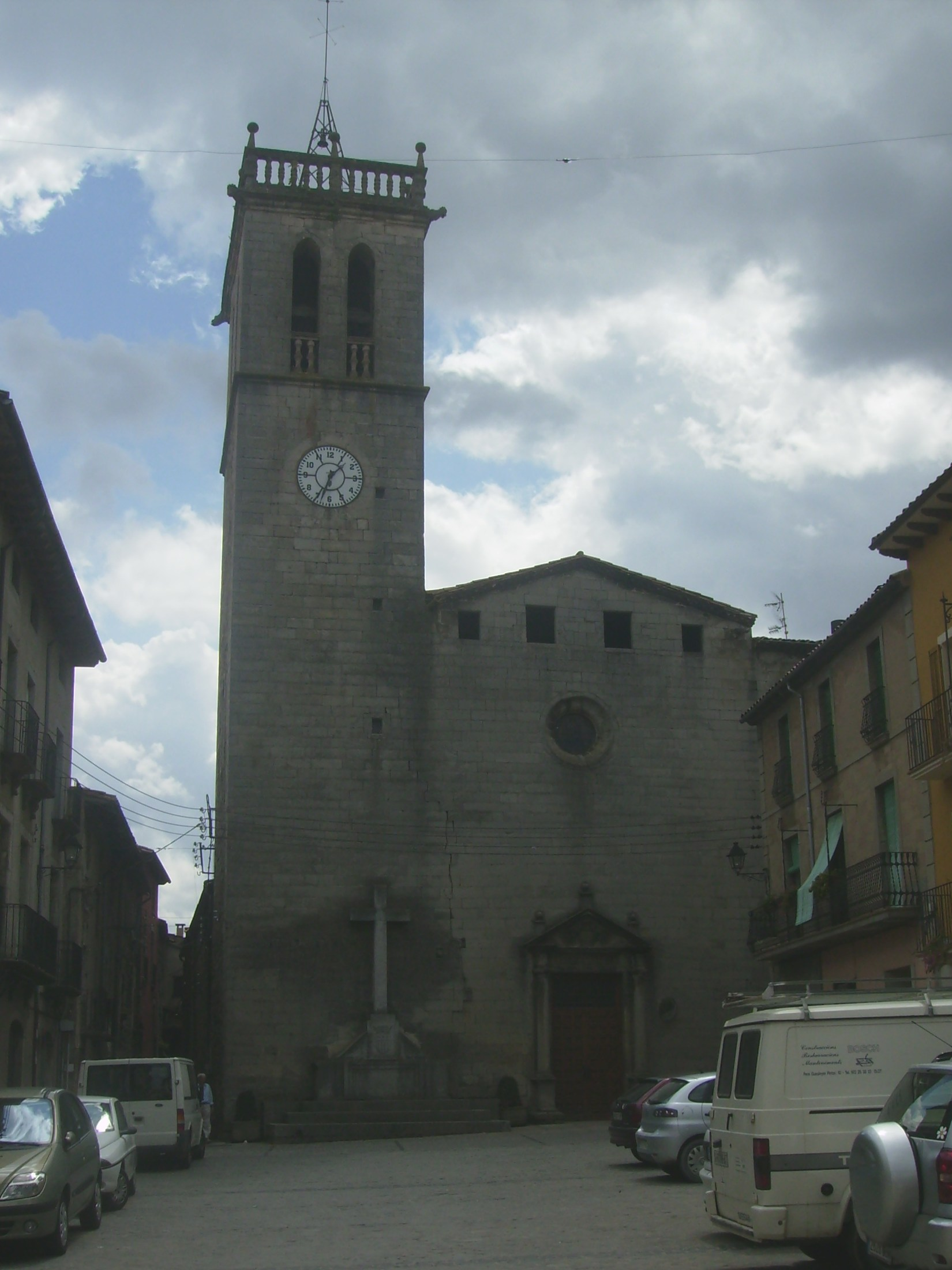 Sant Feliu de Pallerols Church, in la Garrotxa, Catalonia.